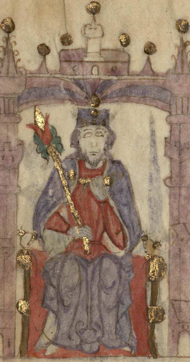 Raymond of Burgundy